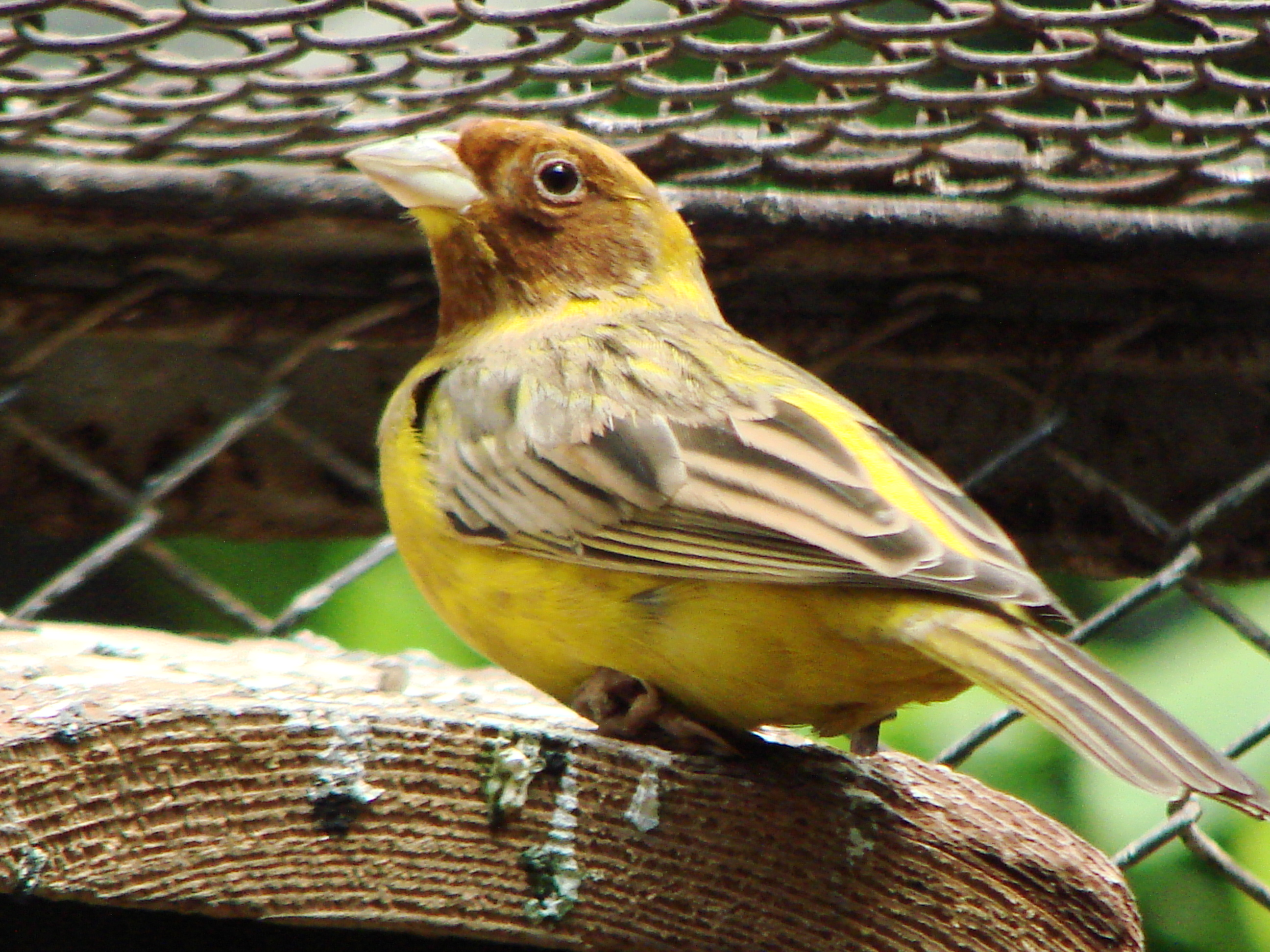 Picture taken in the zoo of Wrocław (Poland): Emberiza bruniceps (Brandt, 1841)